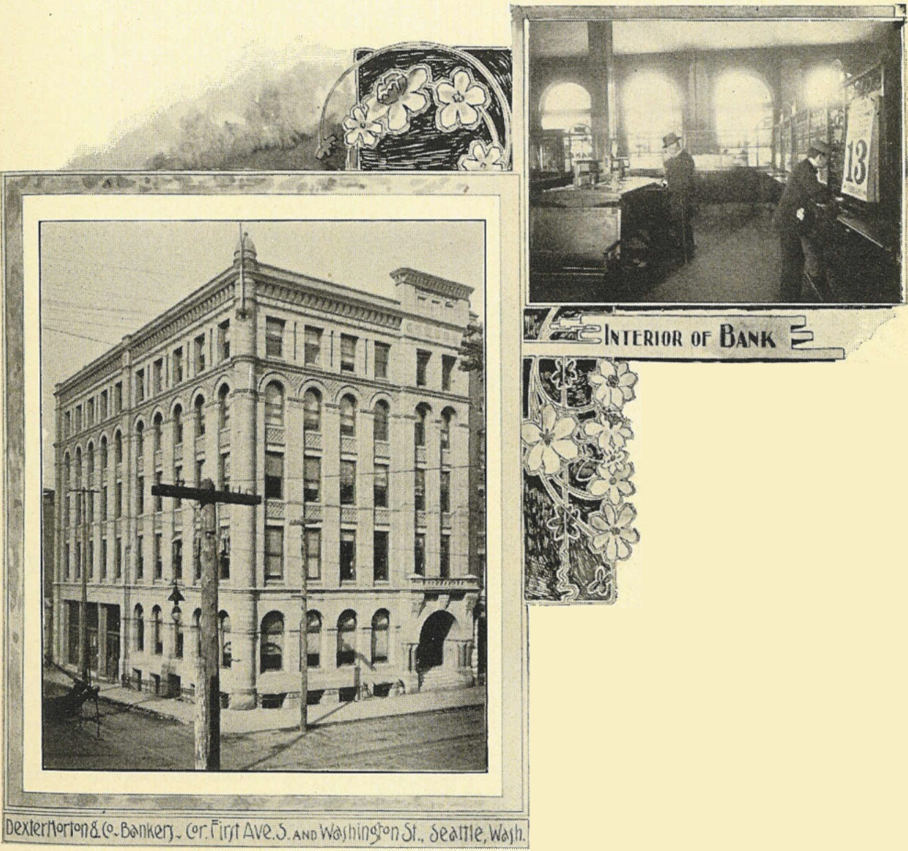 A pair of photos and some decoration collectively captioned "The Bank of Dexter Horton & Co.", from brochure Seattle and the Orient (1900). This was the ancestor of Seattle First National Bank (Seafirst), eventually absorbed into the Bank of America. The pictures are further captioned individually: Lower left: "Dexter Horton & Co. Bankers, Cor. First Ave. S. and Washington St., Seattle, Wash." Upper right: "Interior of bank" The building survives as of 2007.